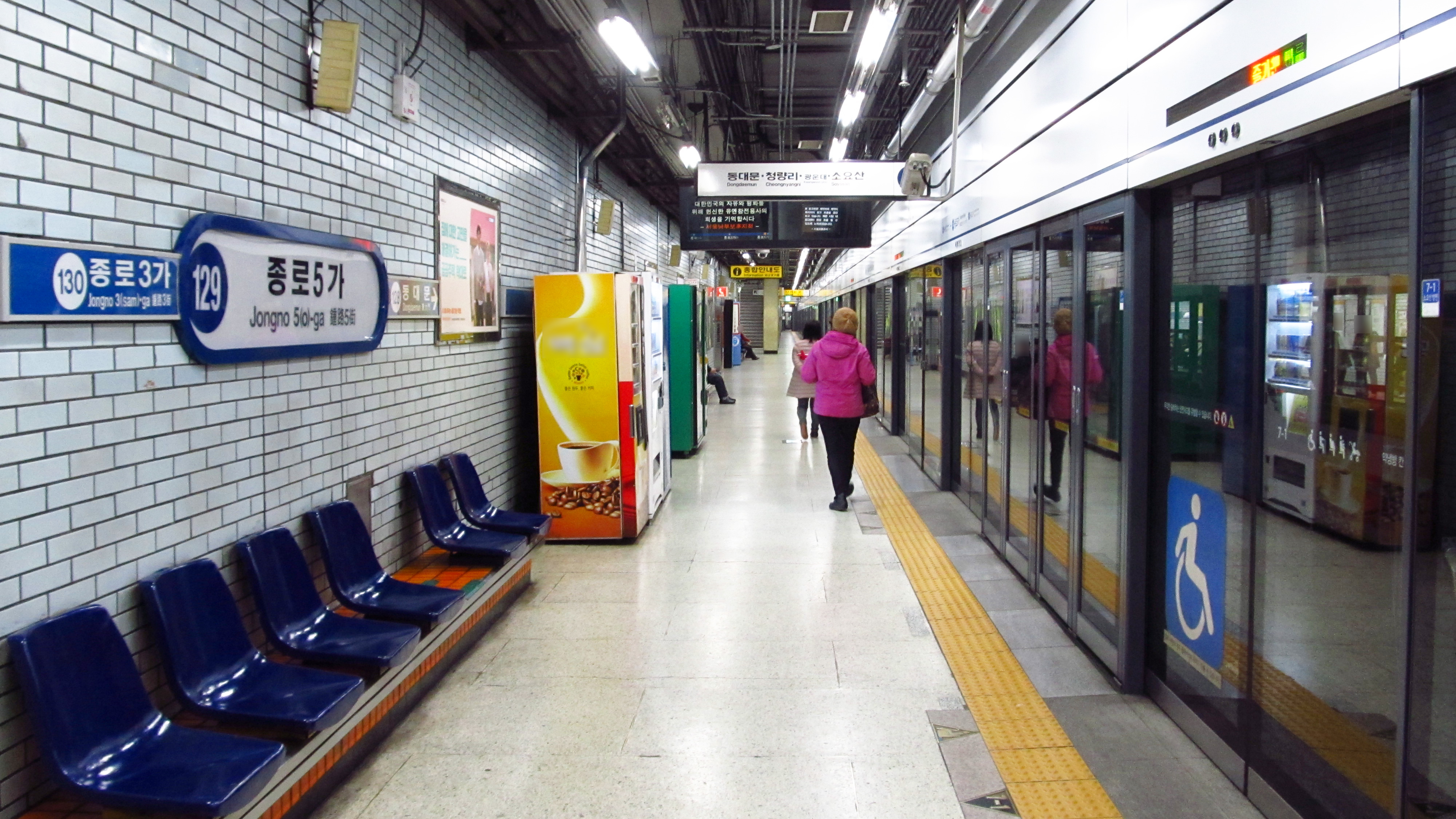 The platform at Jongno 5-ga Station on Seoul Subway Line 1 in Jongno-gu, Seoul, Republic of Korea(South Korea)